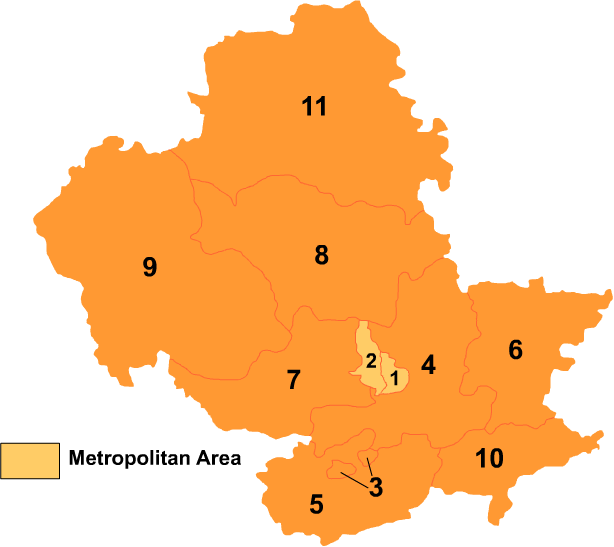 Map of Chengde in Hebei province